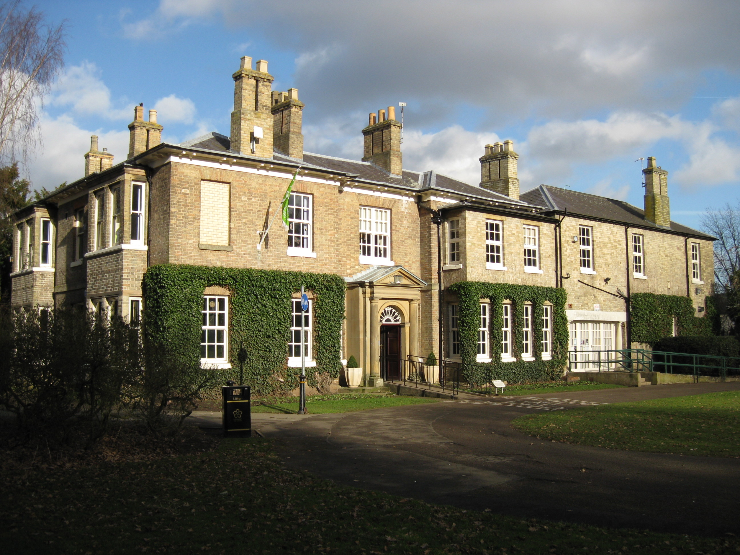 Evington House, Evington Park, Leicester LE5 6DE, built 1836 by Colonel John Burnaby